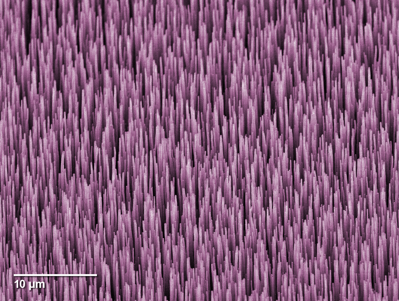 Colorized micrograph of multi-walled carbon nanotubes, each 40 micrometers long, which absorb more than 99.9 percent of the light inside NISTs prototype fiber-coupled radiometer. Credit: Huang/NanoLab, colorized by Talbott/NIST Disclaimer: Any mention of commercial products within NIST web pages is for information only; it does not imply recommendation or endorsement by NIST. Use of NIST Information: These World Wide Web pages are provided as a public service by the National Institute of Standards and Technology (NIST). With the exception of material marked as copyrighted, information presented on these pages is considered public information and may be distributed or copied. Use of appropriate byline/photo/image credits is requested.